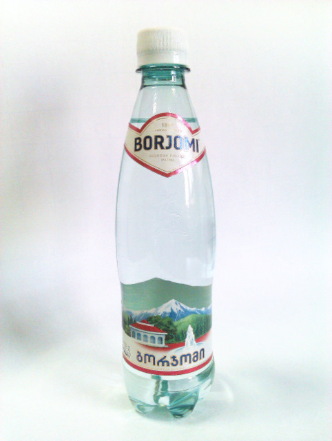 Borjomi 0.5L PET Bottle